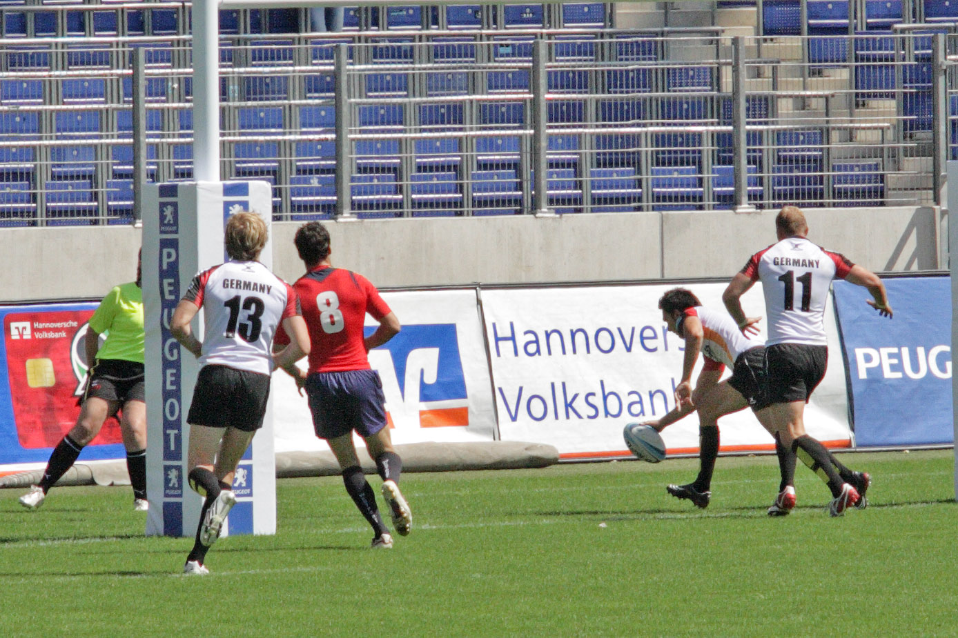 European Sevens 2008 (Hannover Sevens) tournament in Hannover, Germany. Second game of Group A: Spain vs Germany. Mustafa Güngör scores the second try for Germany. The game ended 26:22 for Spain.